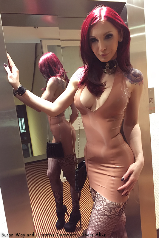 Latex Model Susan Wayland. Taken during a party in Germany - year 2016